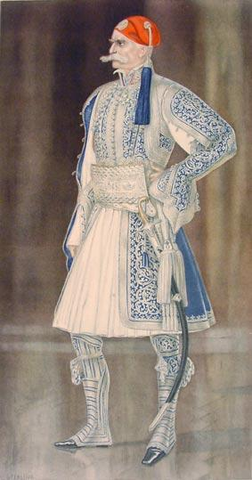 Greek General's Full Dress of 1835 including Fustanella - Greek Costume Collection by NICOLAS SPERLING (Russia 1881-1940 / act: Athens).